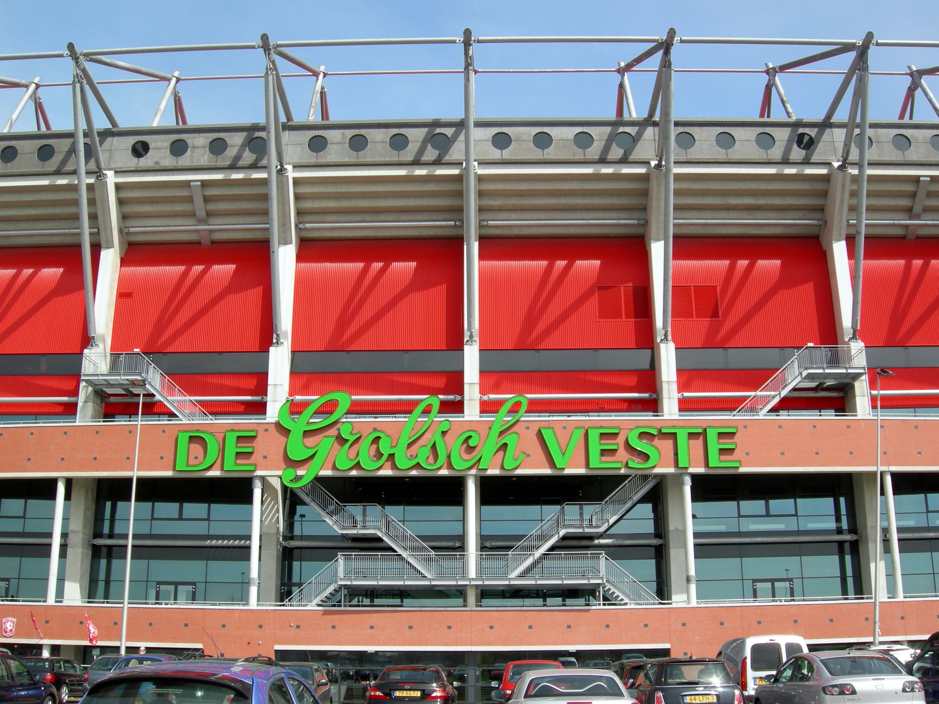 The main stand of De Grolsch Veste. Stadium of FC Twente from Enschede.